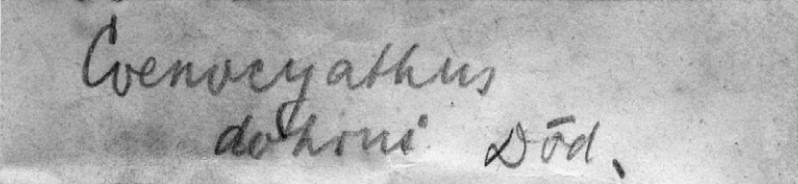 Handwritten label by Ludwig Döderlein (1855-1936) for a specimen of Coenocyathus dohrni Döderlein, 1913 (now synonymized with Caryophyllia inornata (Duncan, 1878), a species of Hexacorallia.